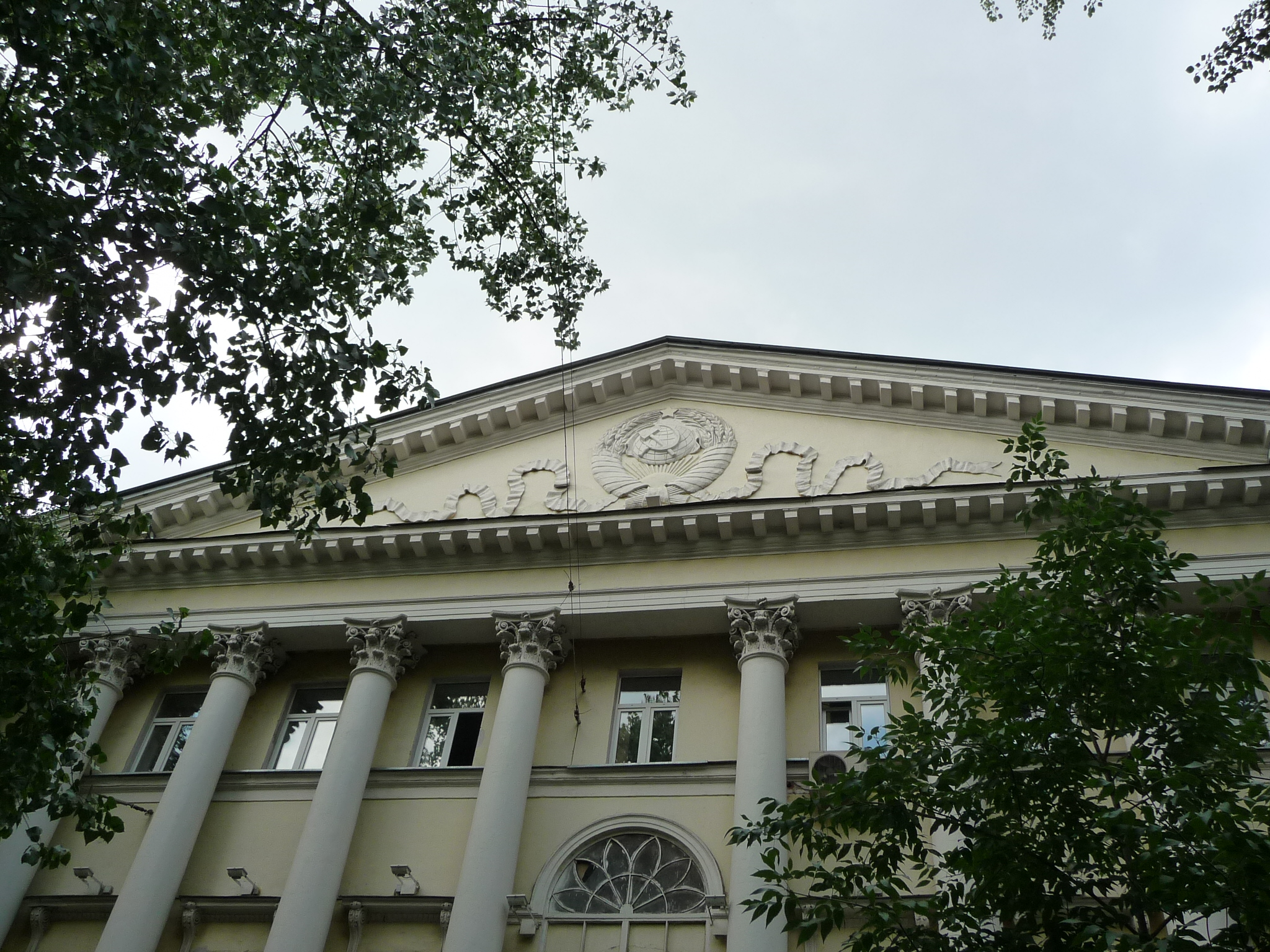 LingUnivMoscow-p1030324.jpg